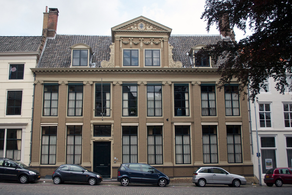 Balans 11 in Middelburg, the Netherlands